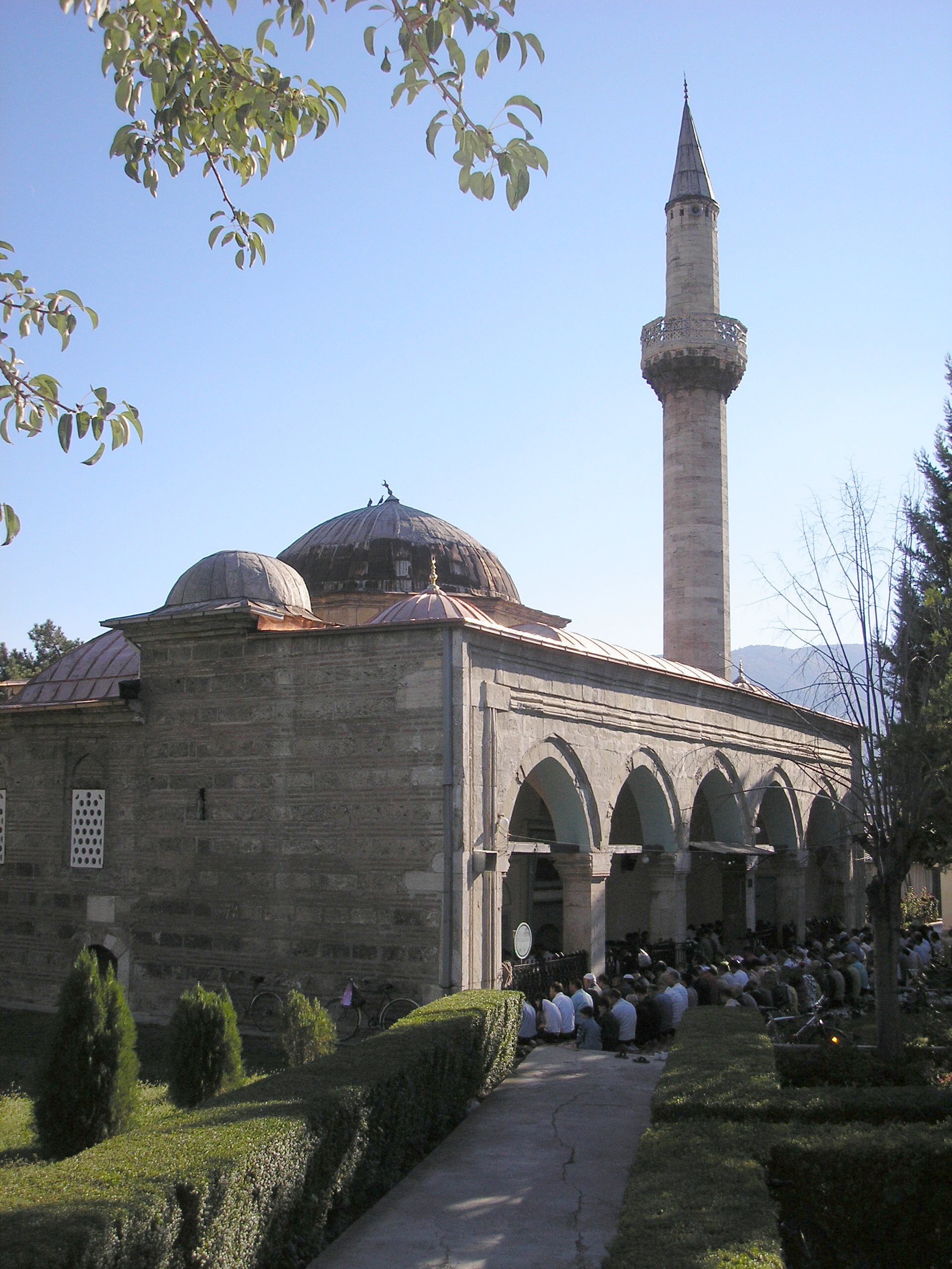 The Aladija mosque in Skopje, Macedonia